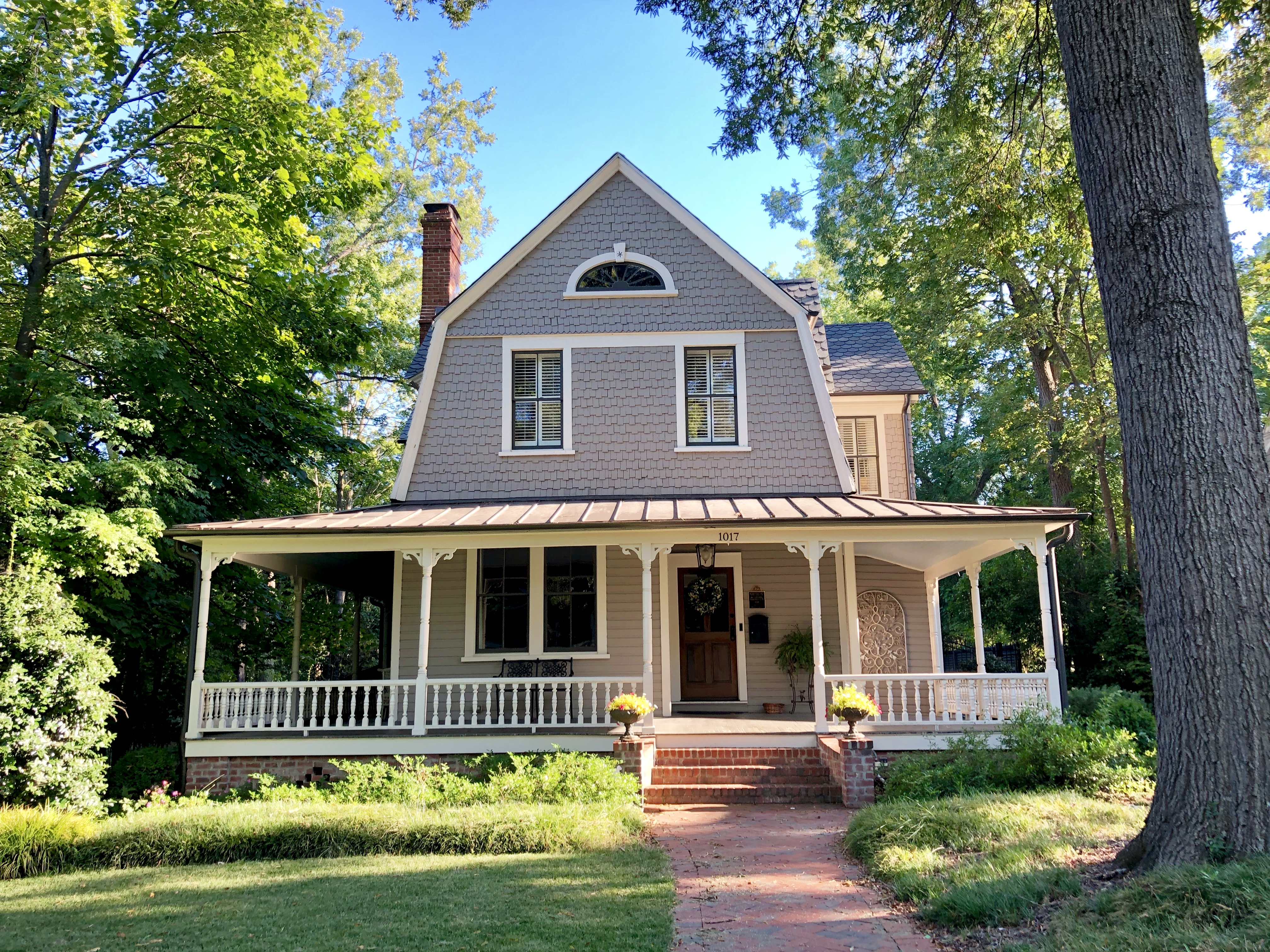 This is the Bassett House, constructed in 1891 and located on Trinity Avenue in the Trinity Park neighborhood of Durham, North Carolina. It was listed on the National Register of Historic Places in 1979.